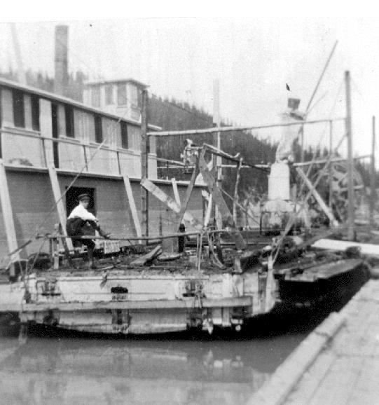 Ptarmigan (steamboat) after fire ca 1909, on Columbia River in British Columbia. Vessel on left is probably Isabella McCormack